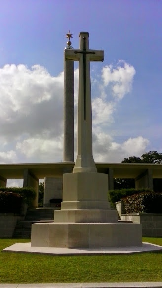 The Cross of Sacrifice at the Kranji War Memorial, Singapore.